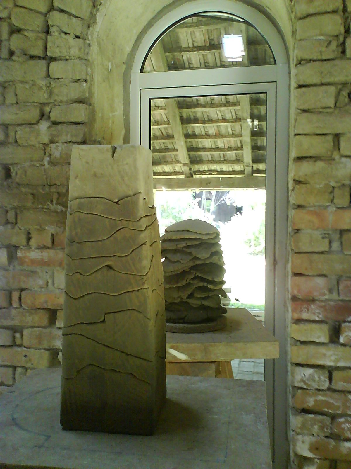 International Terracotta Sculpture Symposium is held every july in Kikinda. It is the unique symposium of large sculptures in terracotta in the world.